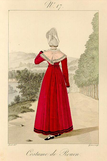 Costume de Rouen: Painted engraving